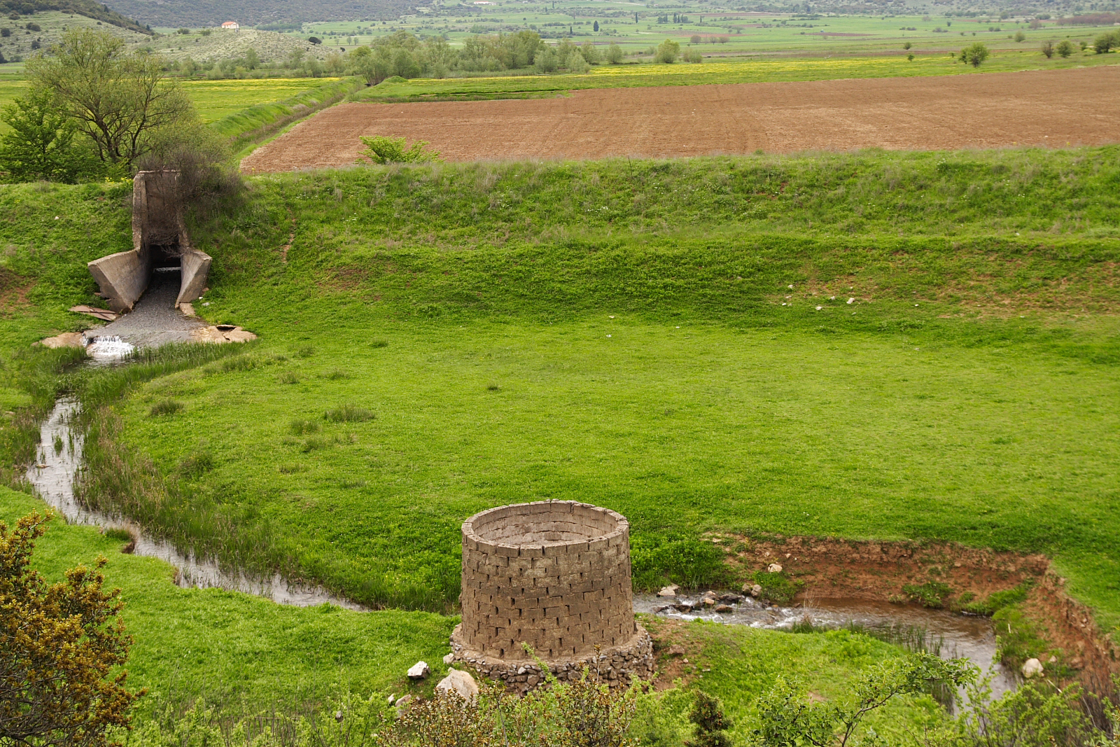 Ponor in a karst field, (a draining hole, or shaft, or cave entrance), where the water disappears underground. In Greek 'katavothra'. This karst ponor is in the northeast Peloponnese.